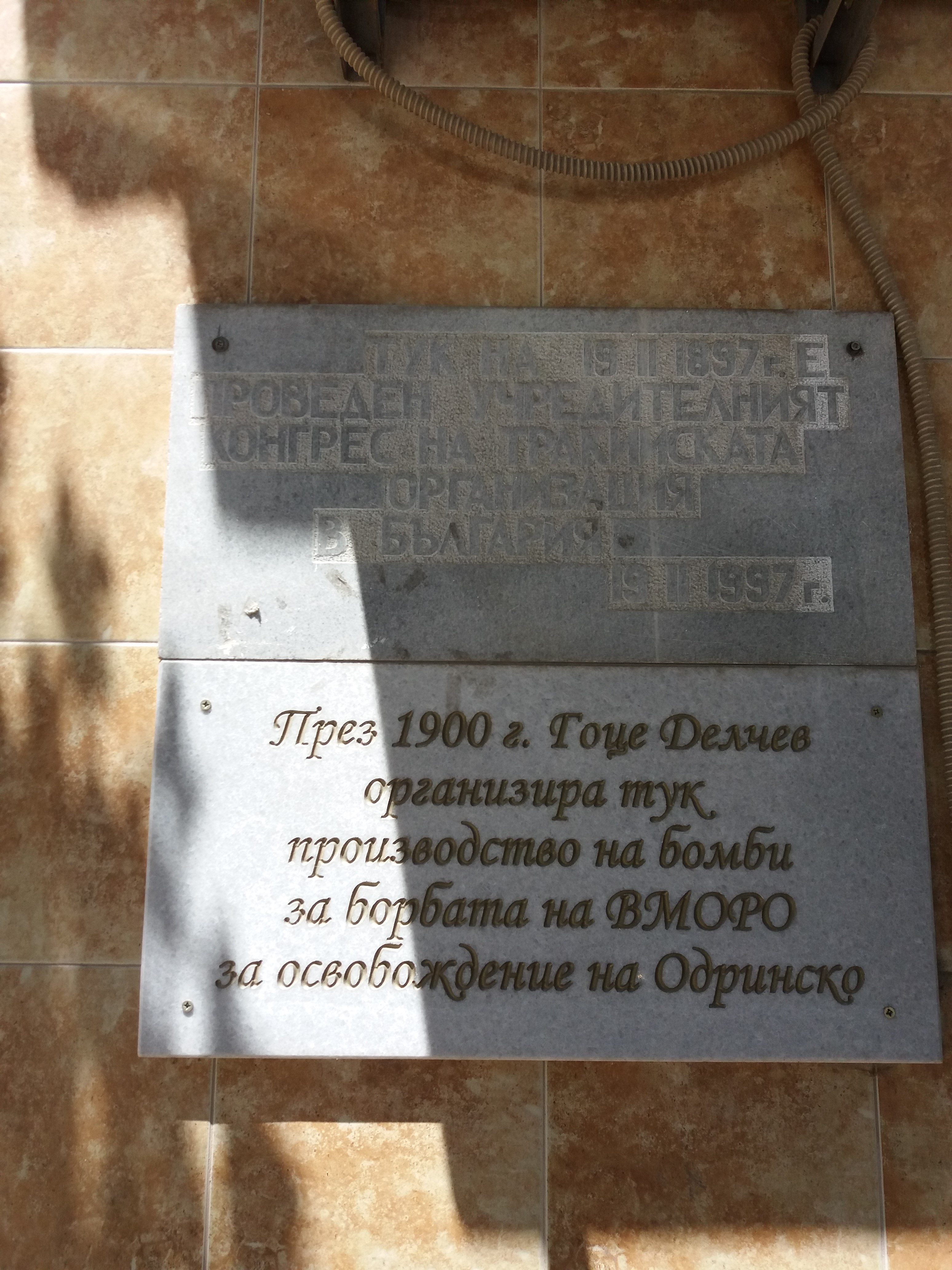 Commemorative plaque in Minkov Han (inn), Burgas